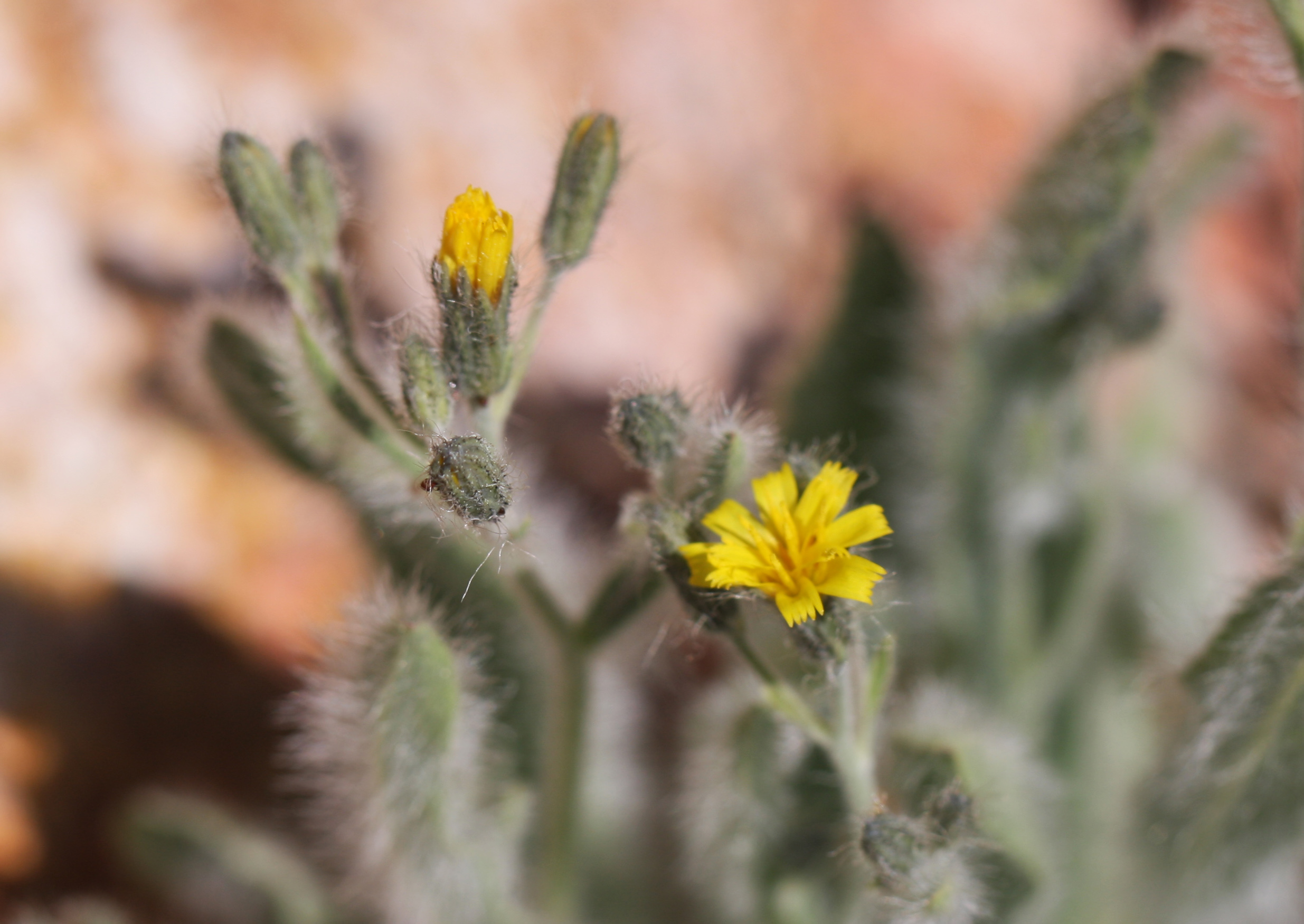 Shaggy hawkweed (Hieracium horridum), closeup of flower and bud. At 8900ft near High Trail (part of Pacific Crest Trail) above Agnew Meadows, Ansel Adams Wilderness, California.